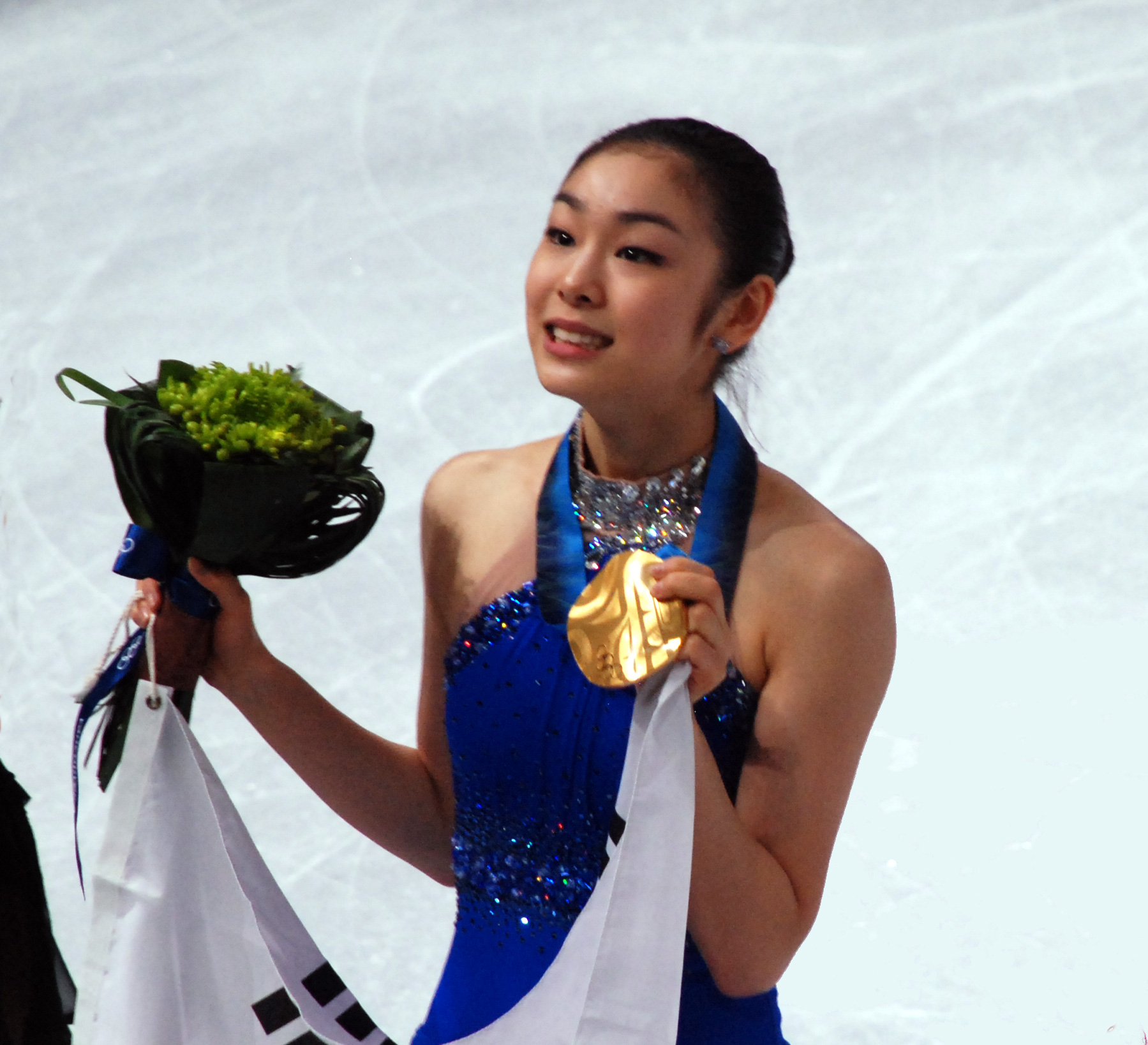 Yu-Na Kim with her gold medal at the Pacific Coliseum, Vancouver, BC, february 25th 2010